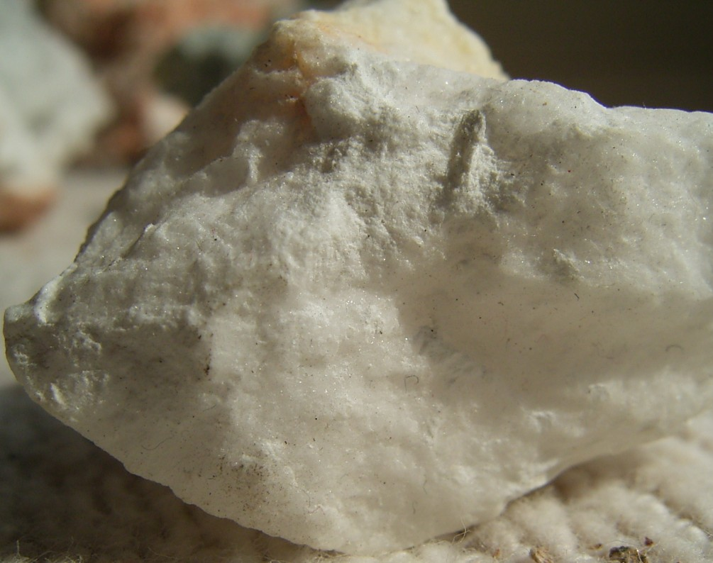 Alabaster_Briar,Howard Co.,Arkansas,USA